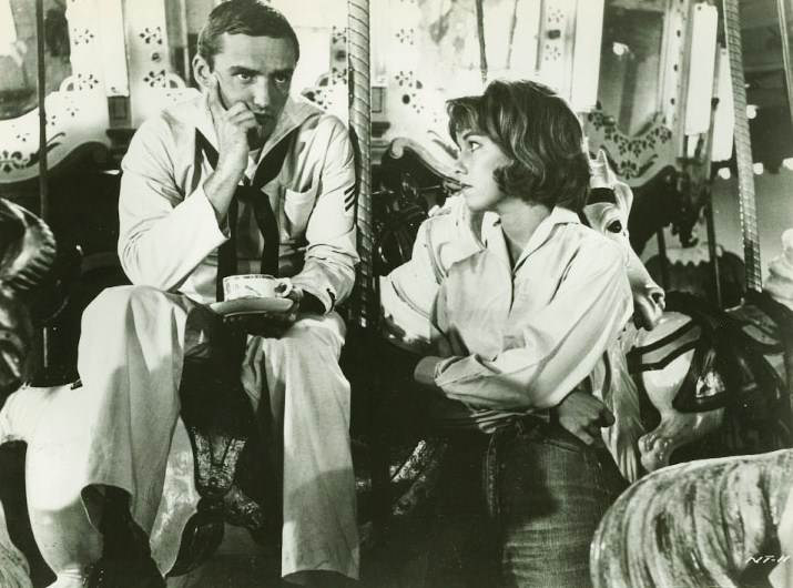 Dennis Hopper and Luana Anders in Night Tide (1961) - publicity still (cropped)